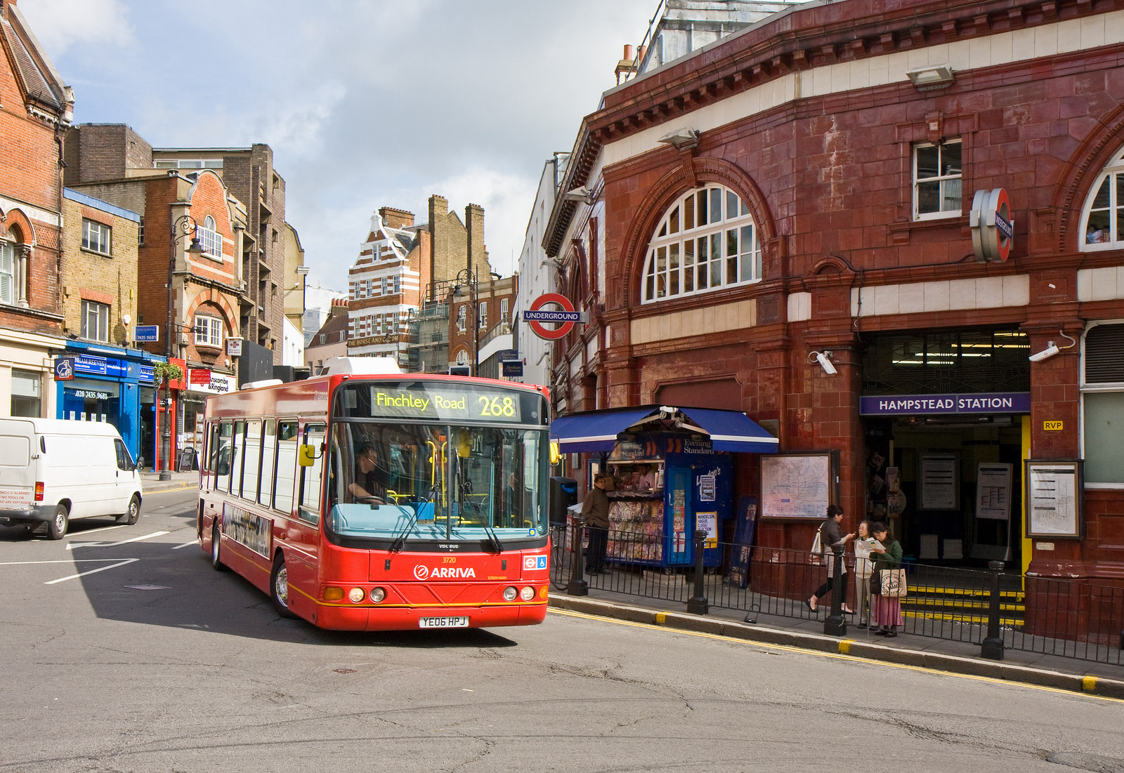 Turning Into The High Street, near to Hampstead, Camden, Great Britain. A 268 bus turns onto Hampstead High Street having descended Heath Street on route to Finchley Road from Golders Green. As it turns, it passes Hampstead Underground Station with its magnificent red tiled facia. A couple of Asian tourists can be seen outside the station looking at a map - working out which road goes where in Hampstead can be a daunting propect for the first time visitor.